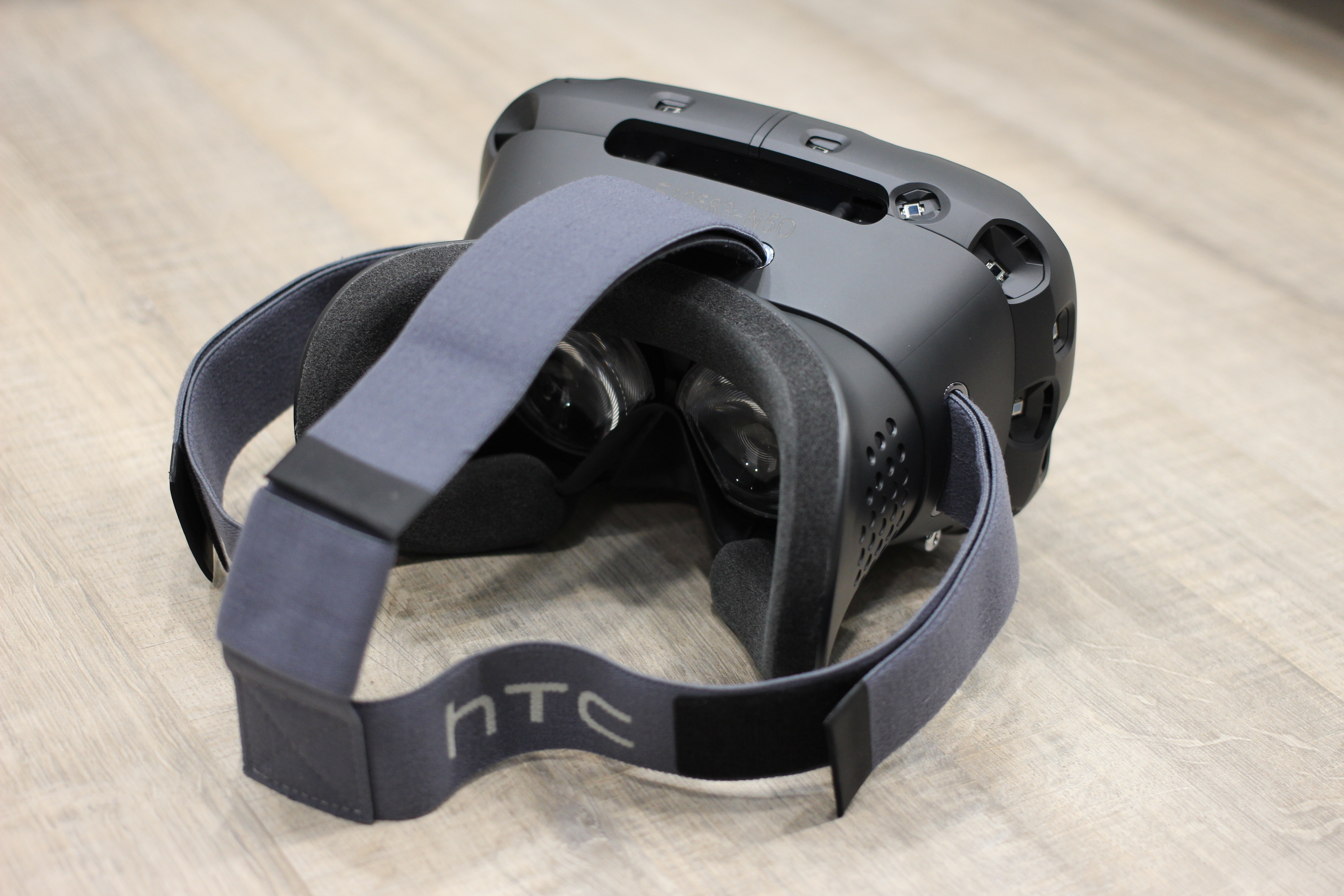 HTC Vive